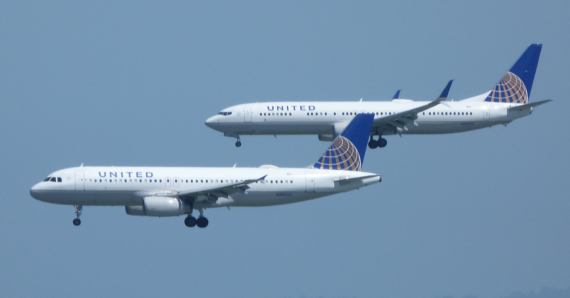 United Airlines Airbus A320 and Boeing 737-800 on final approach at San Francisco